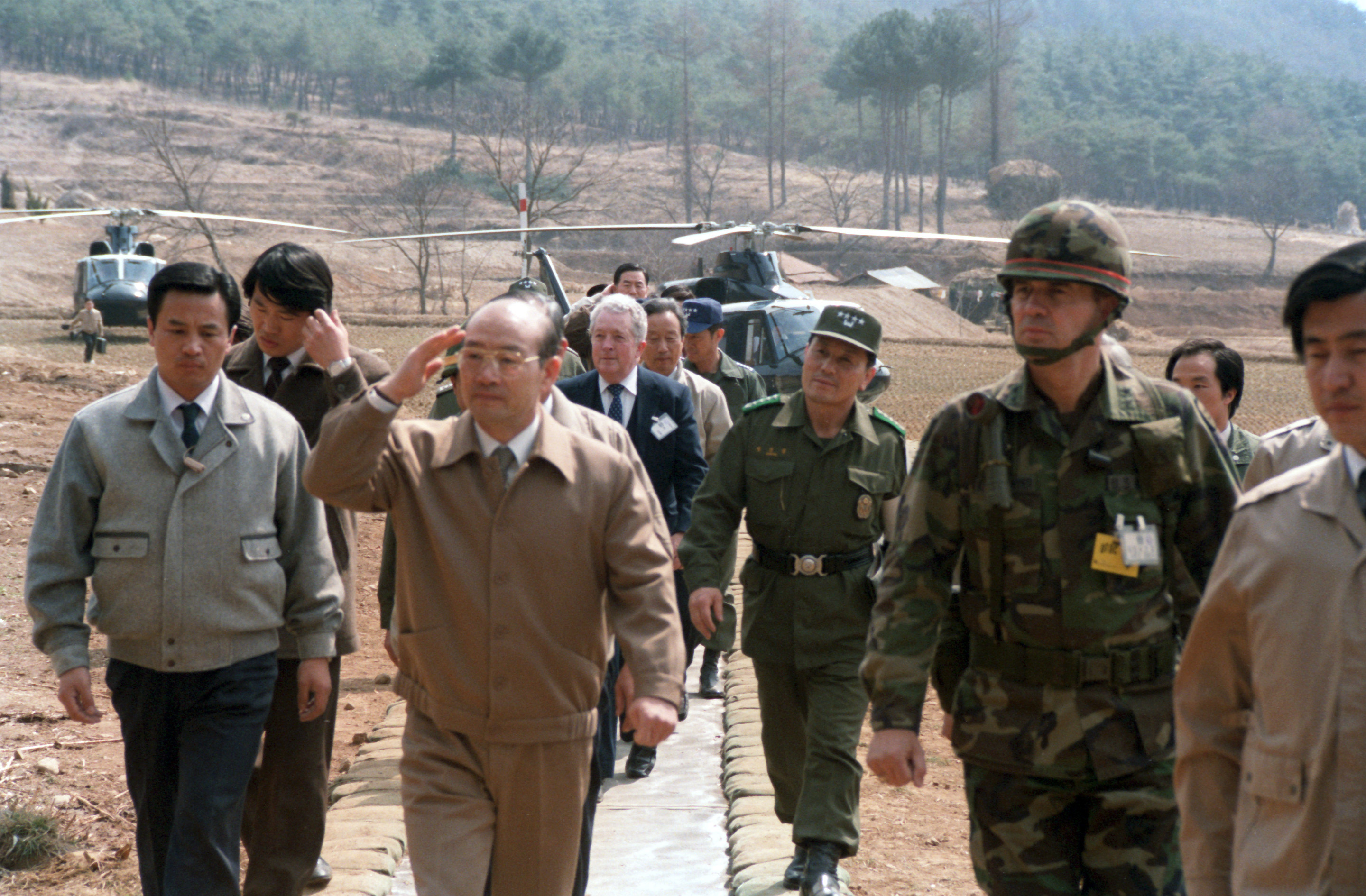 DA-SC-86-08977 Korean President Chun Doo Hwan, center, is escorted by Major General (MGEN) Claude M. Kicklighter, Commander, 25th Infantry Division, upon his arrival at division headquarters during the joint U.S./South Korean Exercise TEAM SPIRIT '85.